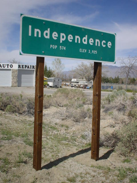 City sign for Independence — in Inyo County, on U.S. Route 395 in California. Credits Photographed and uploaded by user:Geographer. March 26, 2003.